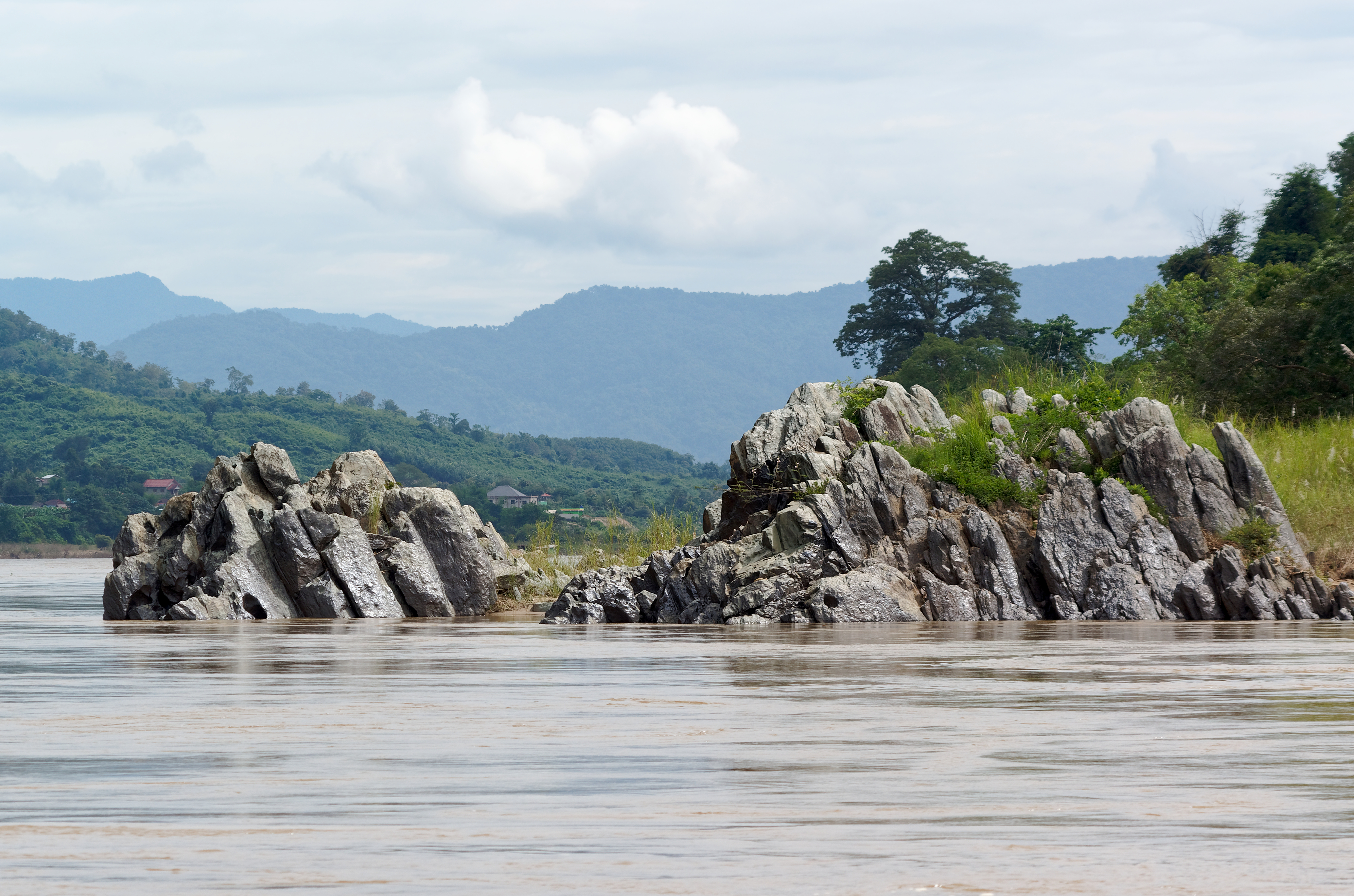 The Mekong River on Thai-Lao border, about 2 kilometers downstream from Fourth Thai–Lao Friendship Bridge